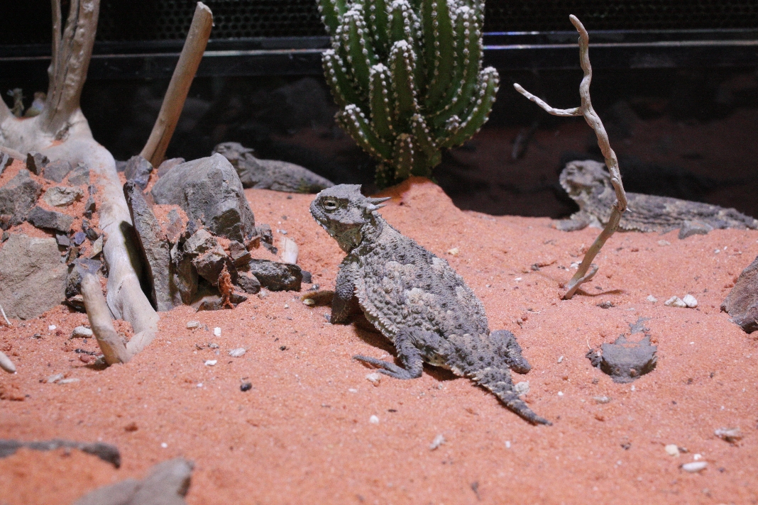 Desert horned lizard. Phrynosoma platyrhinos. Kawazu-town, Shizuoka-pref, Japan.